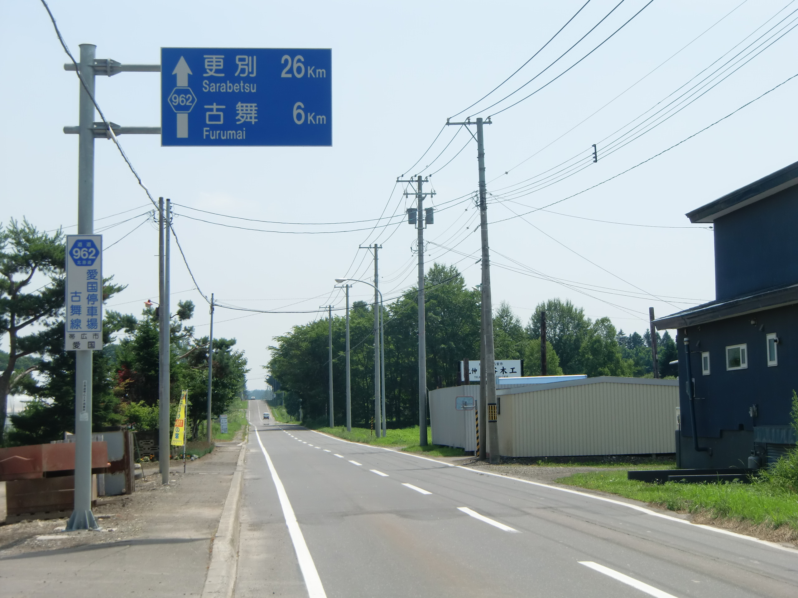 Hokkaido prefectural road 962(Aikokuteishajo-furumai line) in Aikoku, Obihiro-city, Hokkaido, JAPAN.